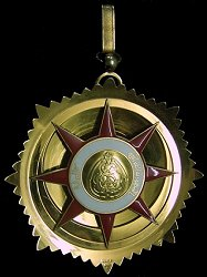 iraqi order of the republic back